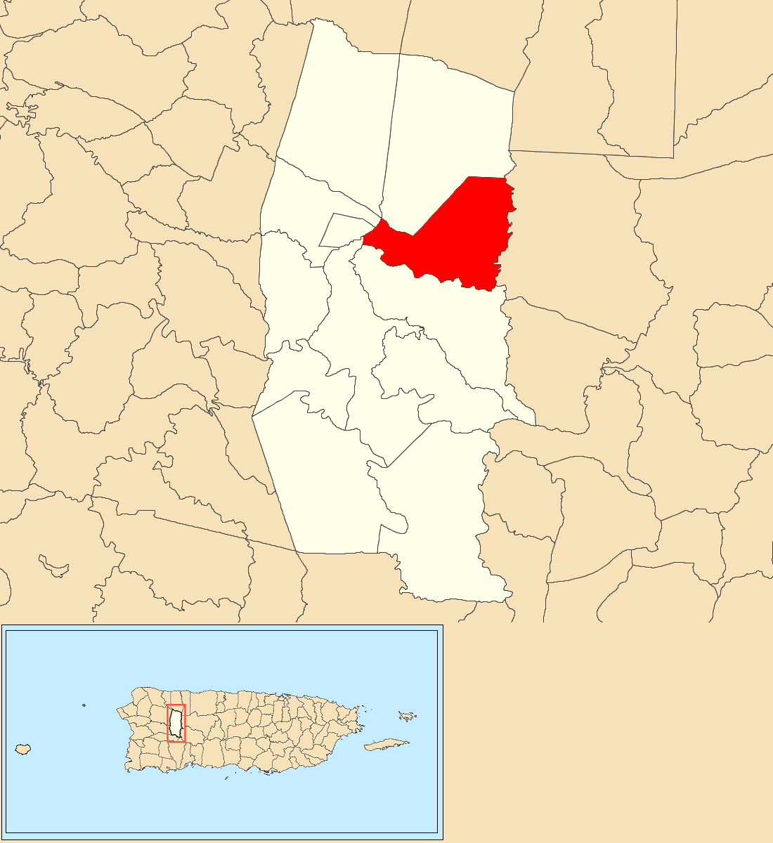 Lares, Lares, Puerto Rico locator map